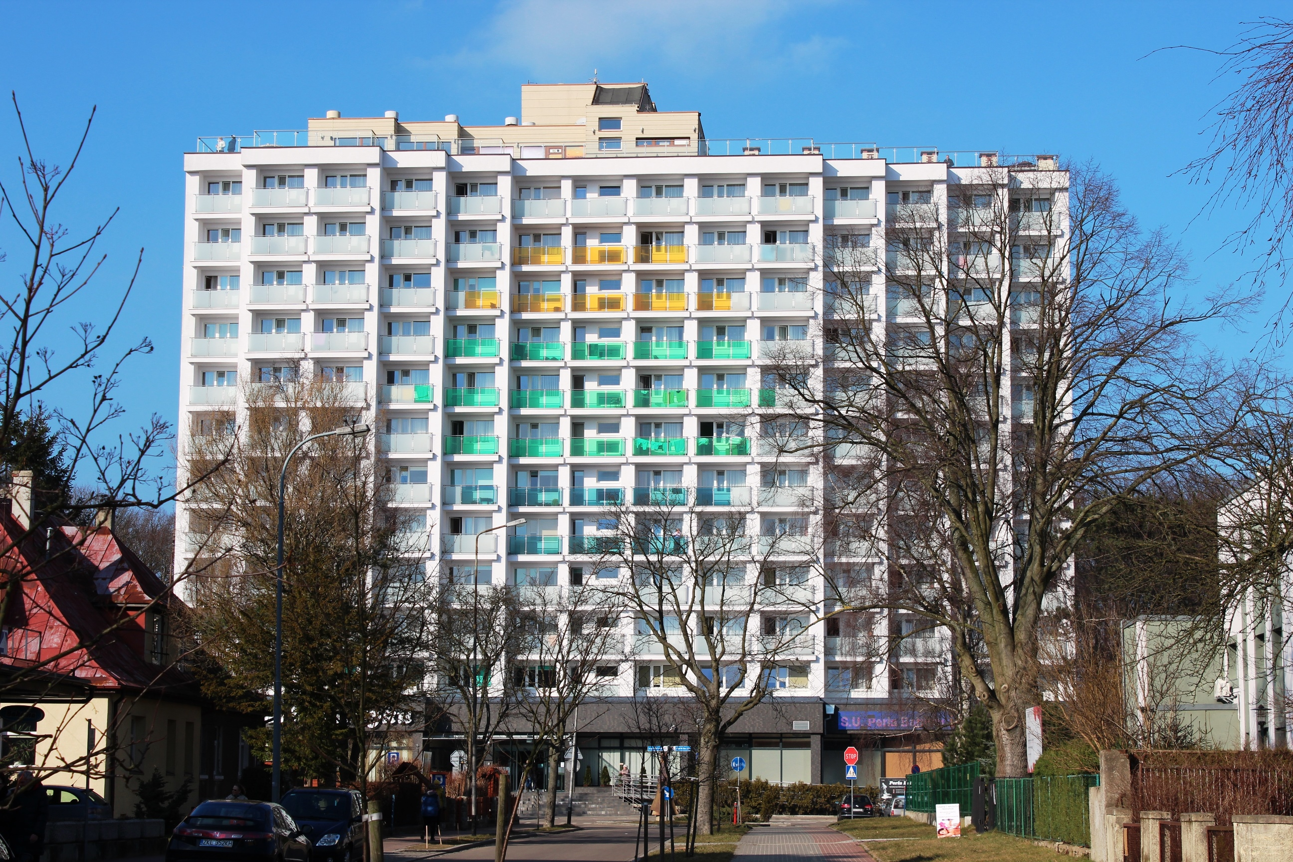 Perła Bałtyku Sanatorium in Kołobrzeg